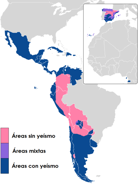 Yeísmo